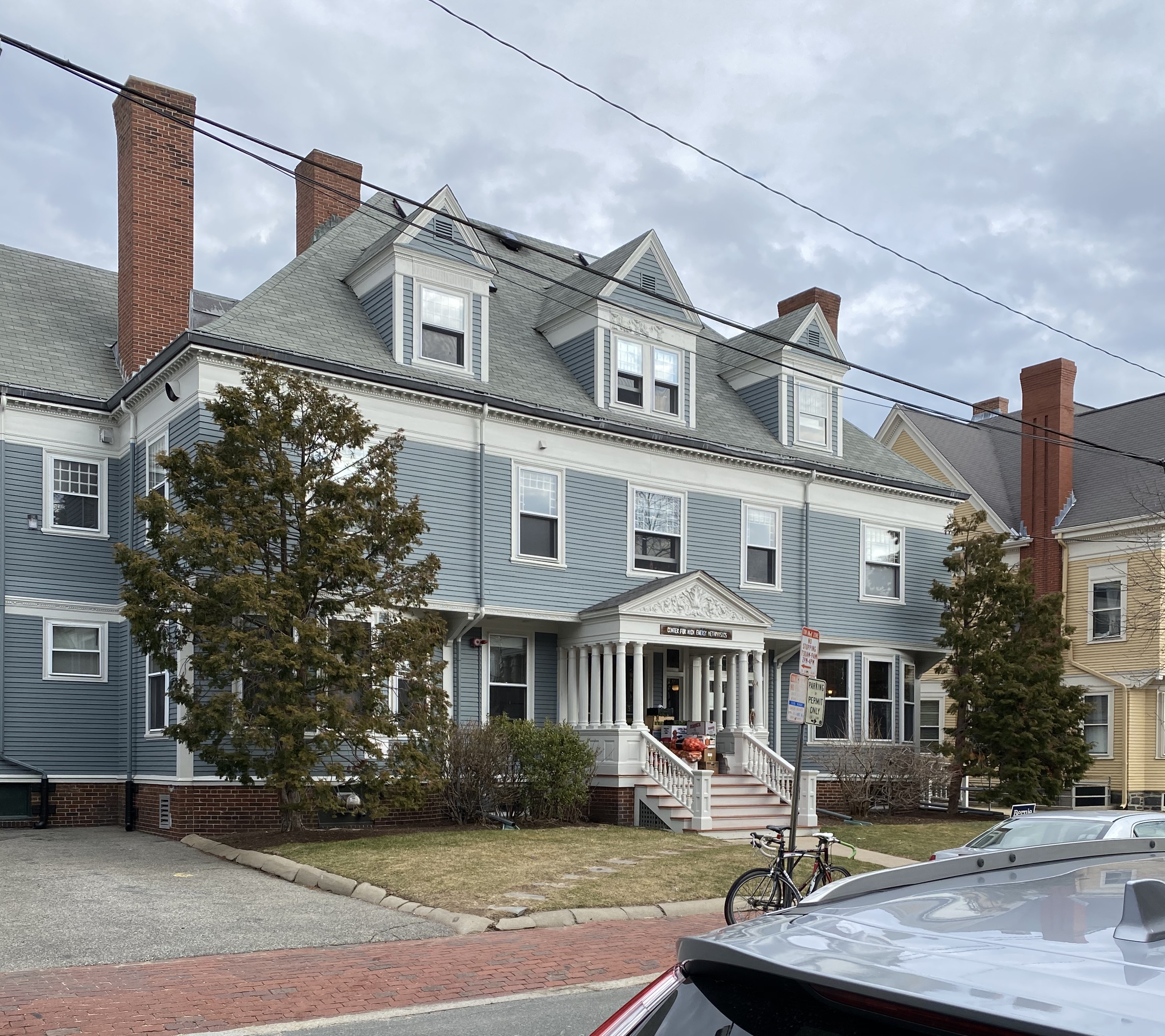 Exterior image of the Dudley Co-op (3 Sacramento Street Building).